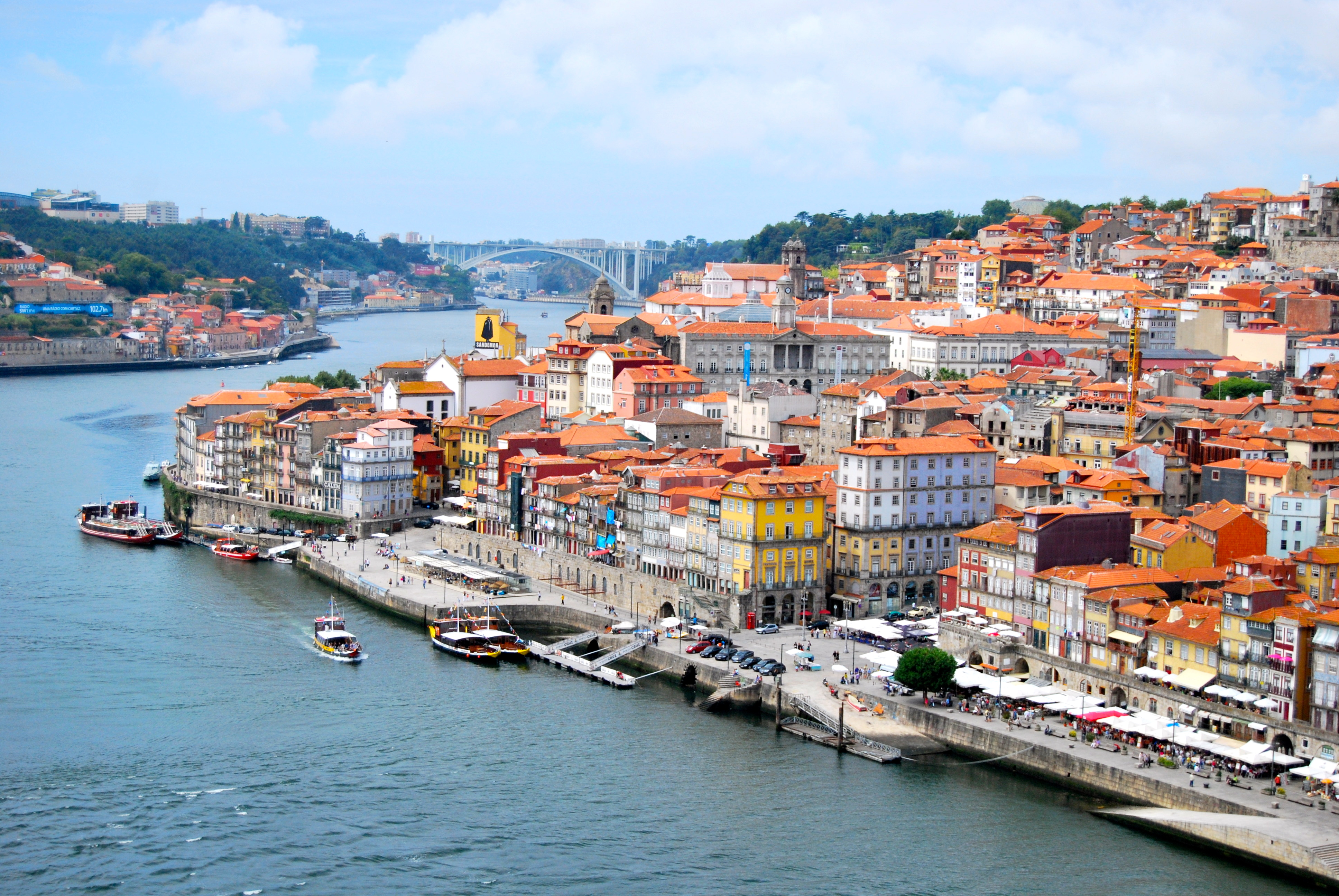 This file was uploaded for Wiki Loves Monuments in Portugal with the unique identifier 11871408.